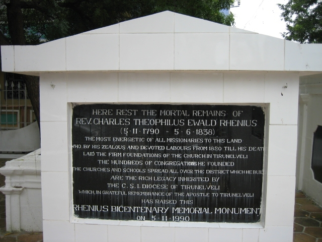 Tomb_of_Rev_C_T_E_Rhenius_who_Evangelised_to_Velu_Mukandar.JPG